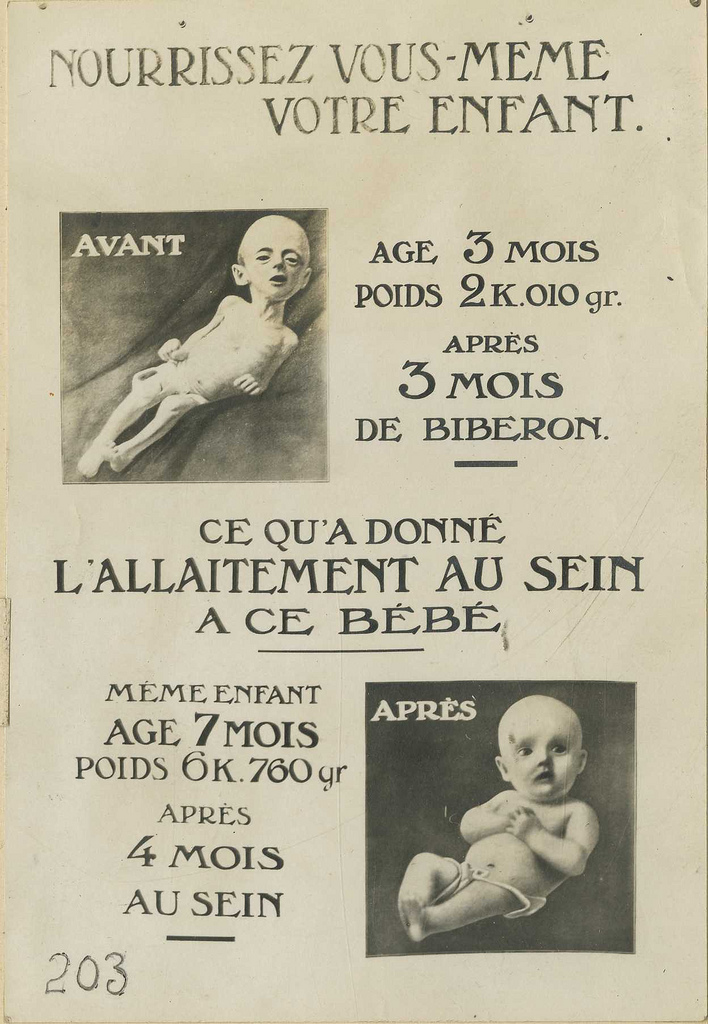 Children’s Bureau charts. Paris, France. Charts showing exhibition, 136 Avenue des Champs Elysees. American Red Cross. World War 1 era